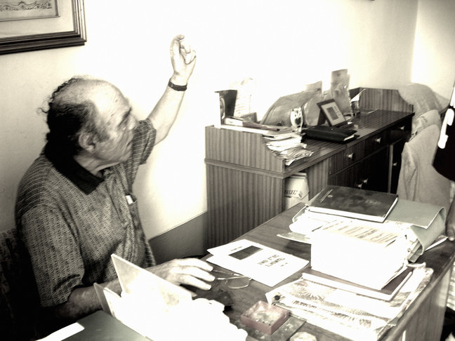 Cardone in his own home. July 2008